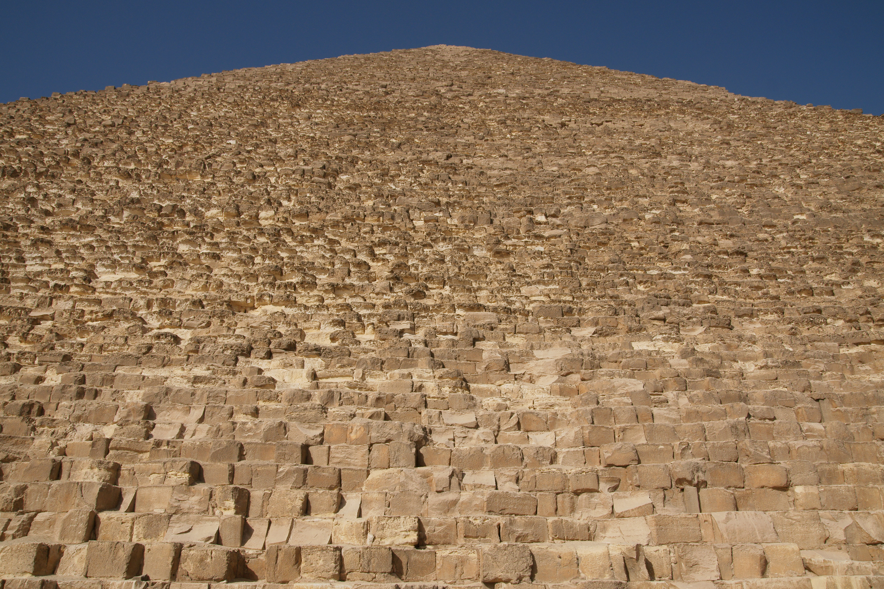 Side of the Pyramid of Cheops.